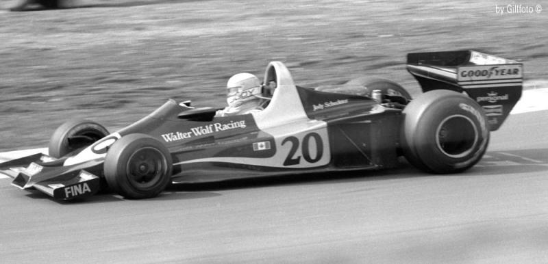 Walter Wolf Racing